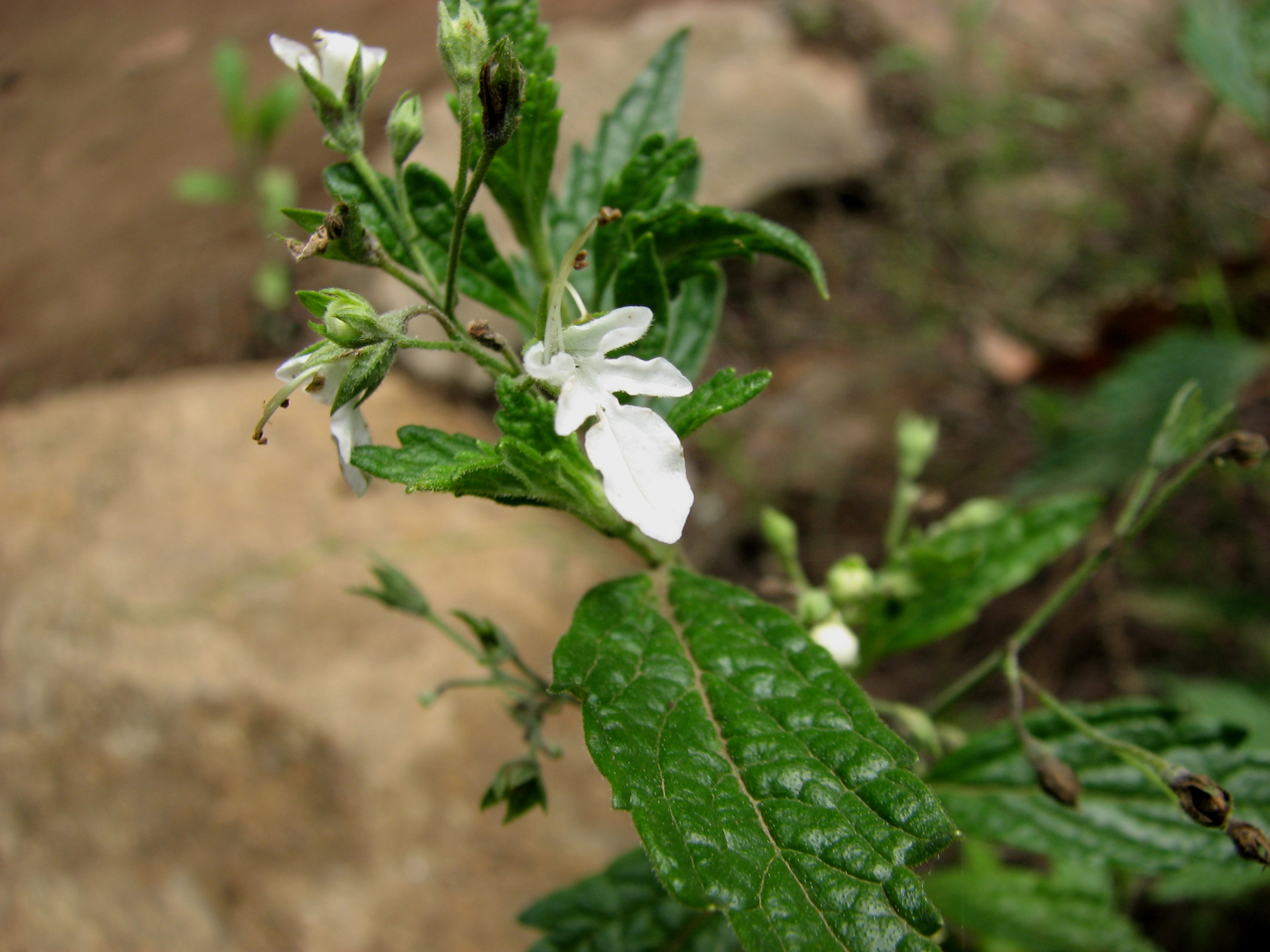 Teucrium corymbosum, Marysville, Victoria, Australia